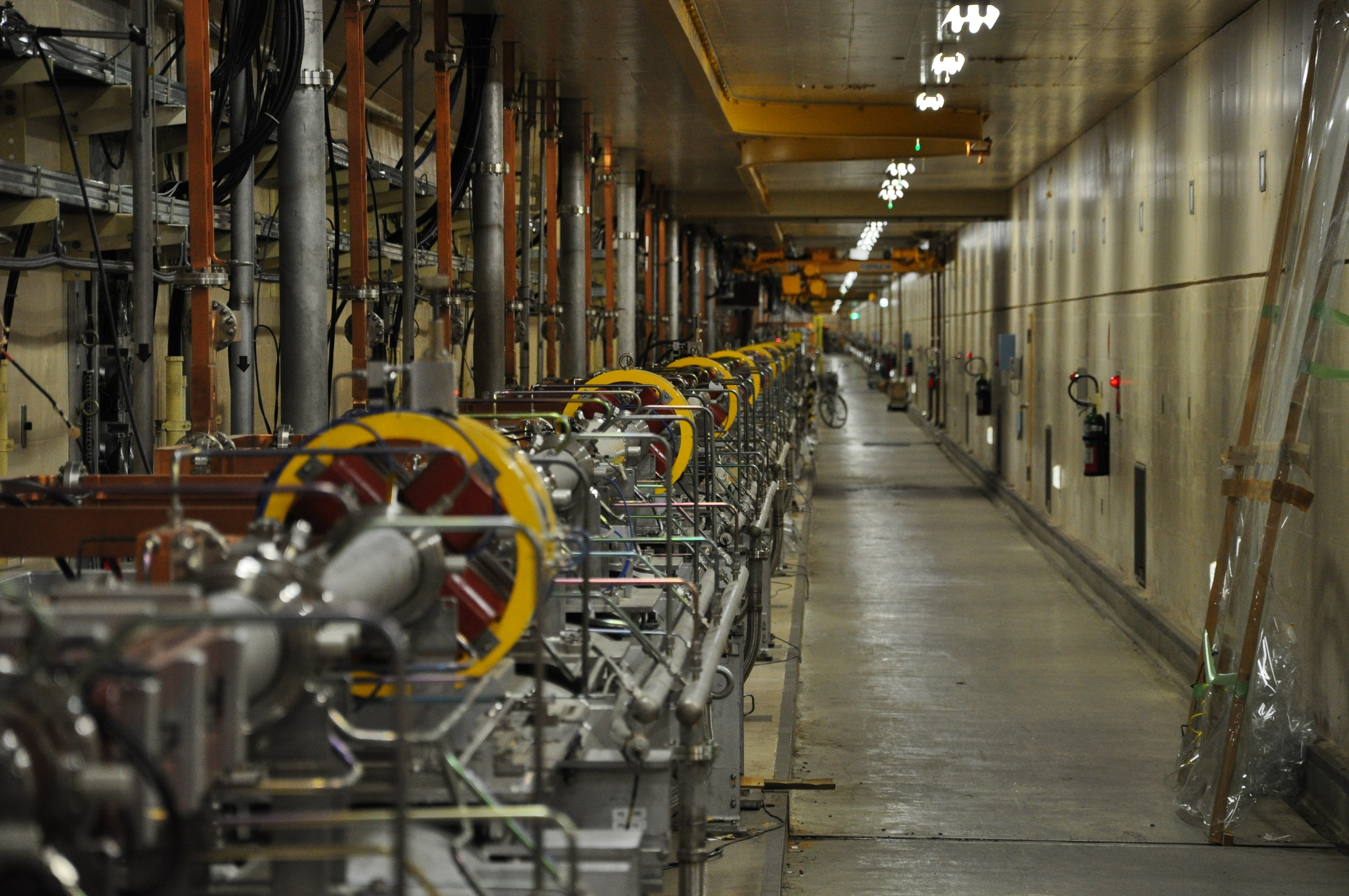 KEK e+/e- Linac. Tsukuba city, Japan.